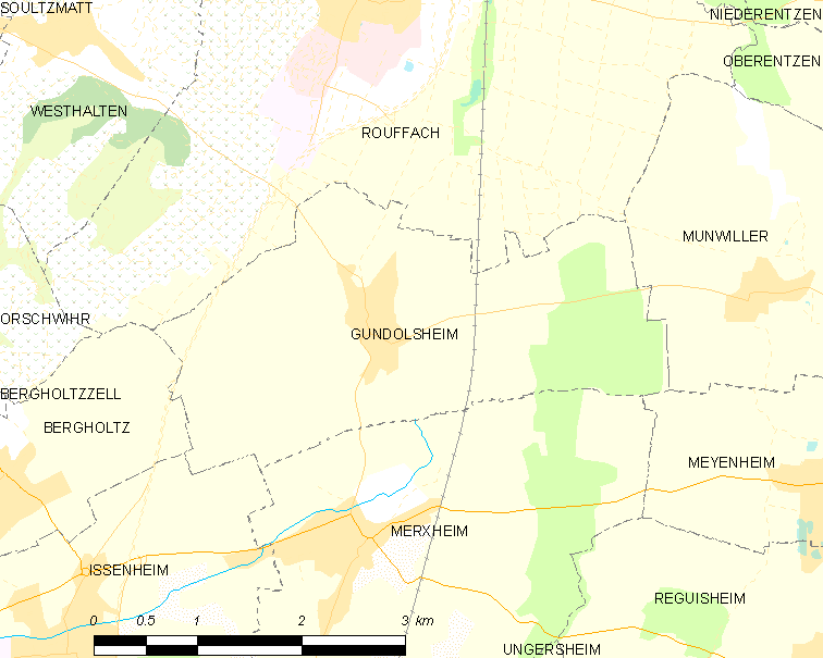 Map of French municipality